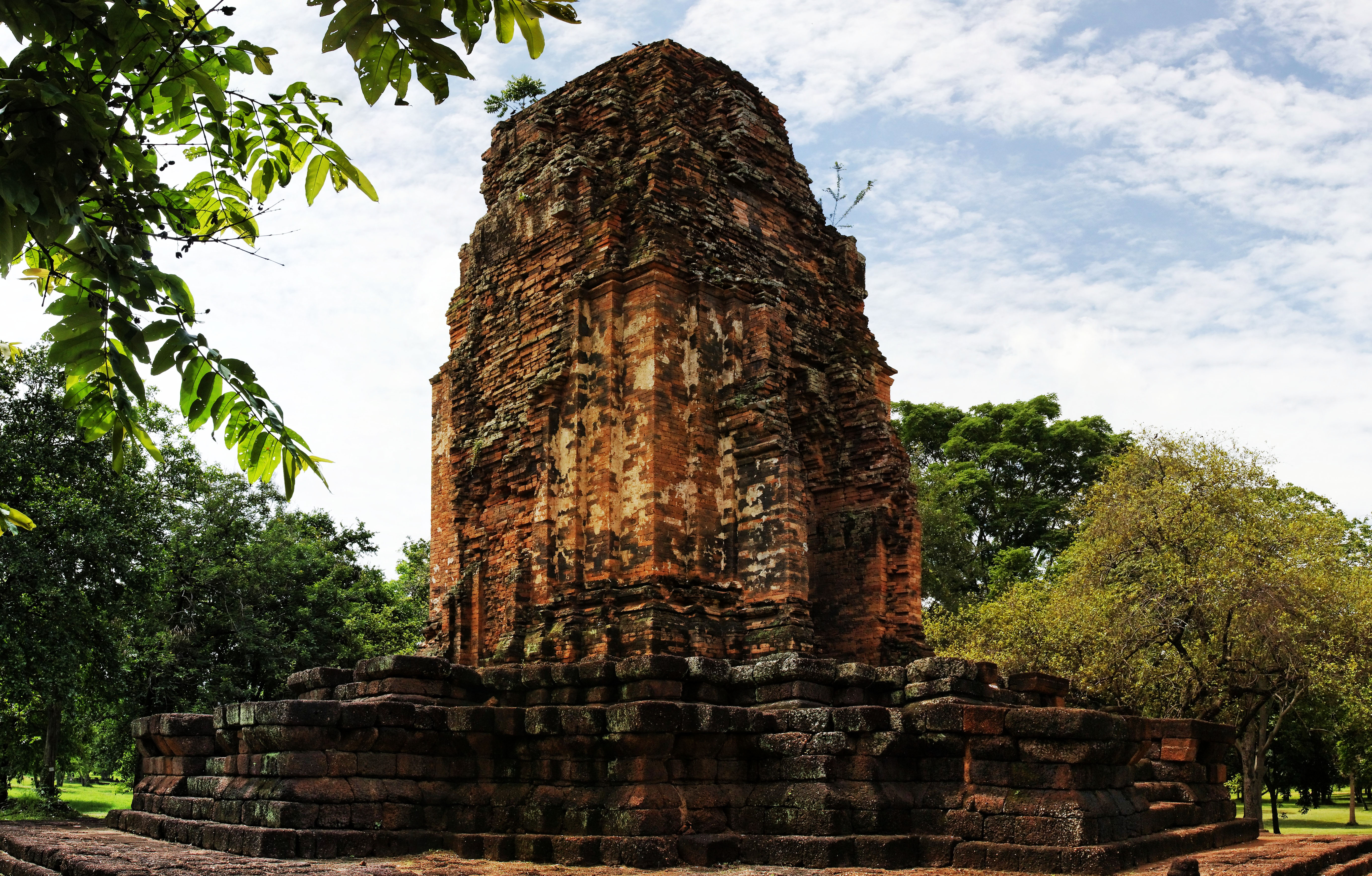 Prang Si Thep, Si Thep Historical Park, Si Thep District, Phetchabun Province, Thailand